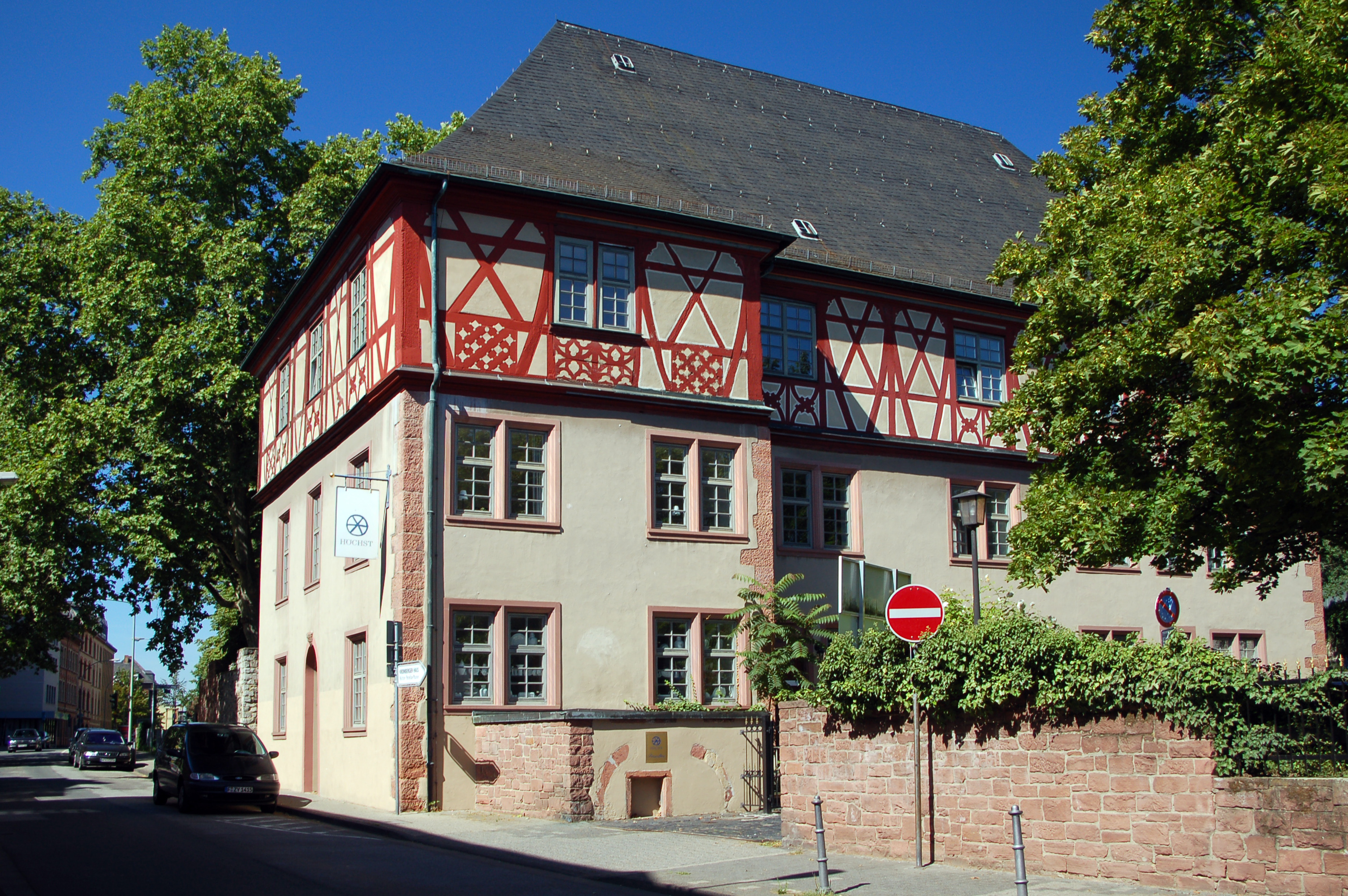 The Dalberger Haus in Frankfurt-Höchst, a former domicile of a noble family and today a sales office of the Höchst Porcelaine Manufacture with a little museum in the cellar